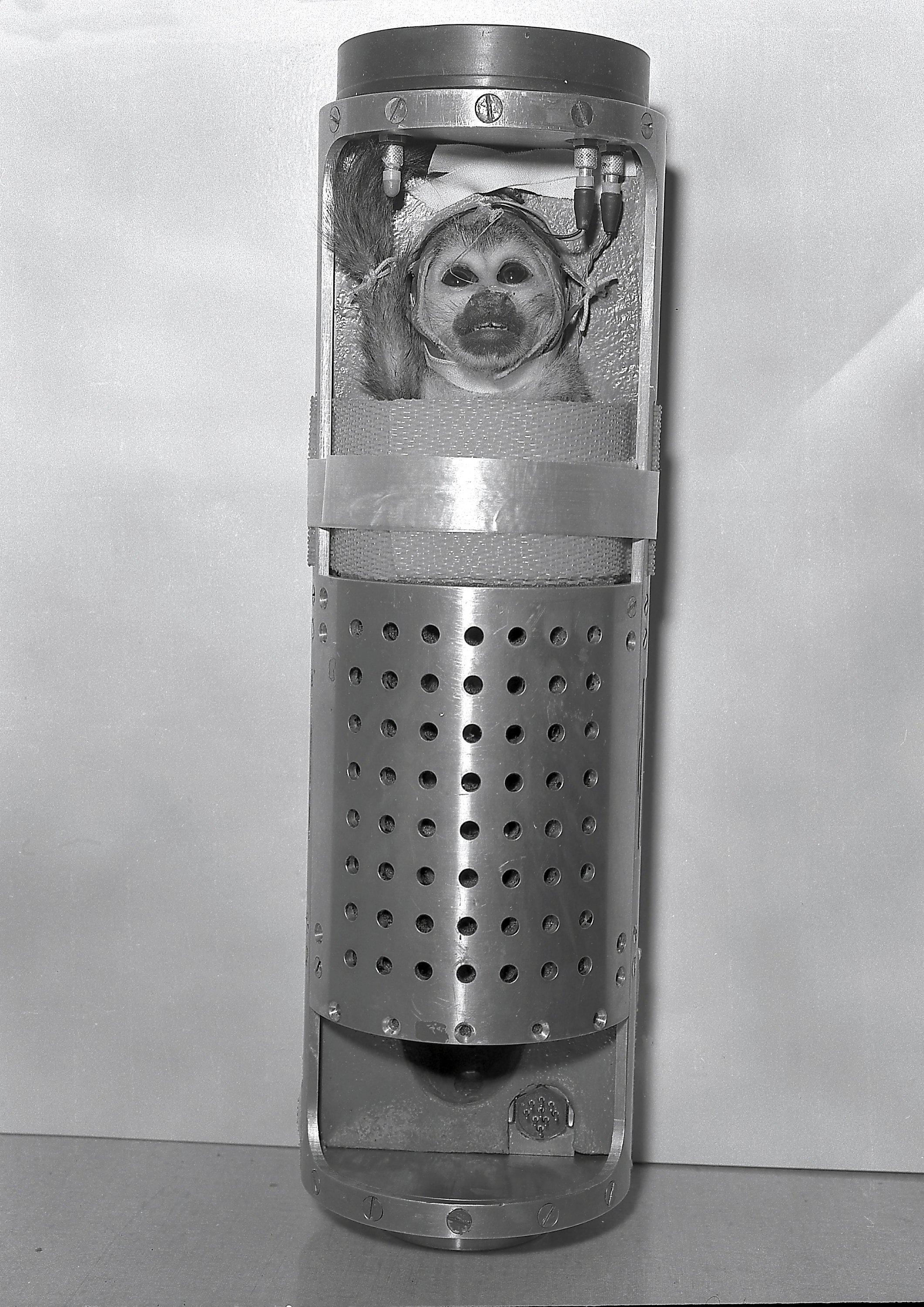 A squirrel monkey, Baker, in bio-pack couch being readied for Jupiter (AM-18 flight). Jupiter, AM-18 mission, also carried an American-born rhesus monkey, Able into suborbit. The flight was successful and both monkeys were recovered in good condition. AM-18 was launched on May 28, 1959.